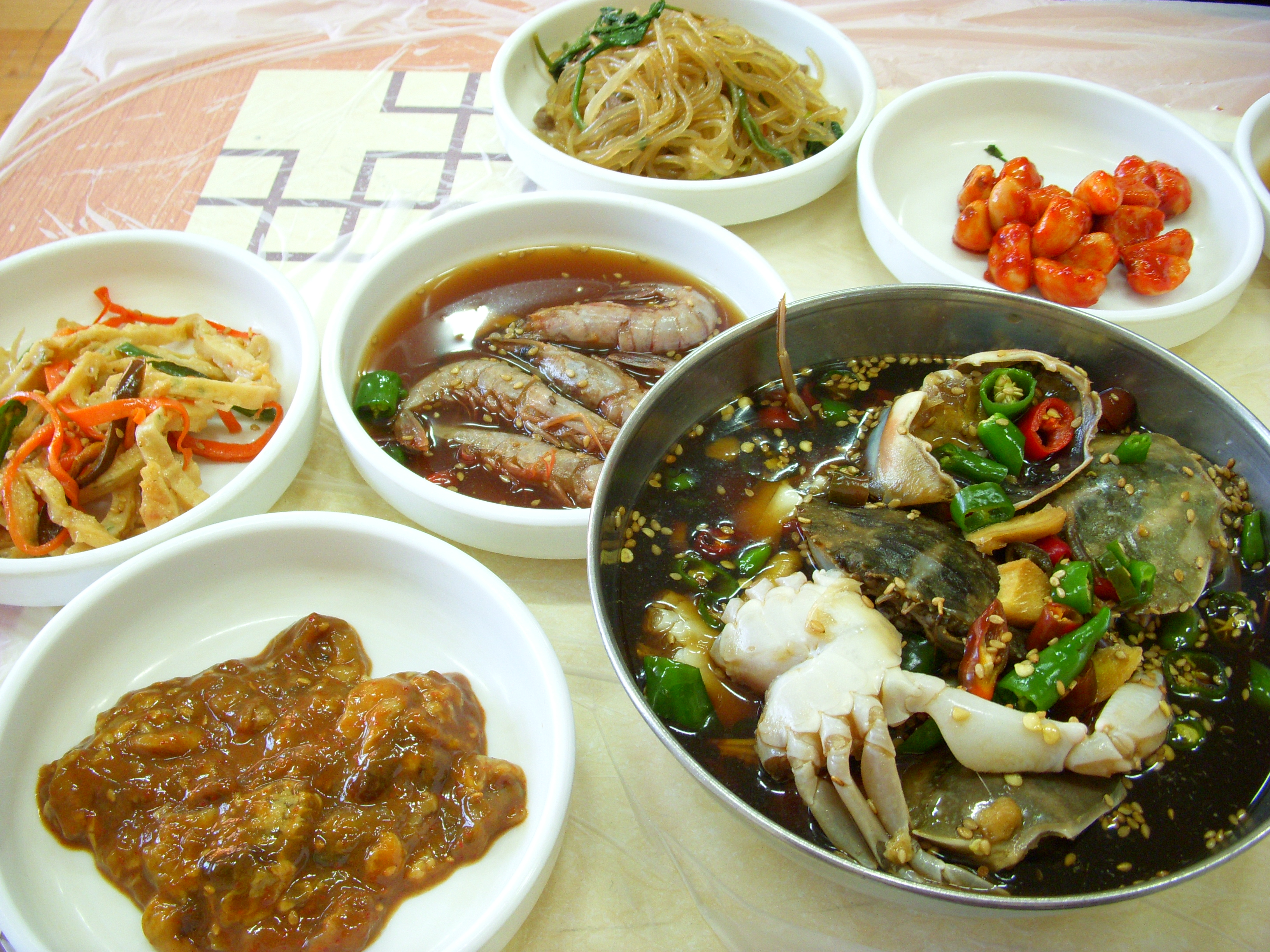 Ganjang gejang (간장게장), marinated raw crab in soy sauce and banchan (반찬), side dish in Korean cuisine